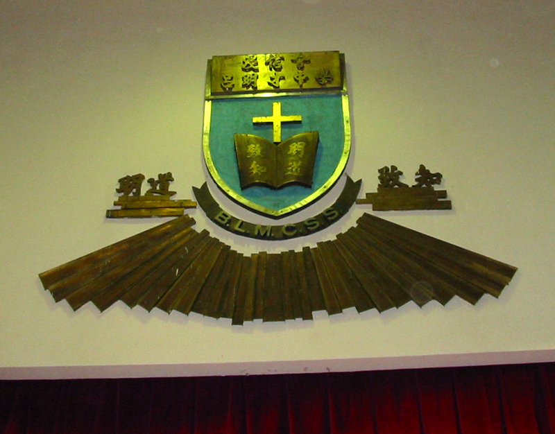 Baptist Lui Ming Choi Secondary School, Sha Tin, Hong Kong